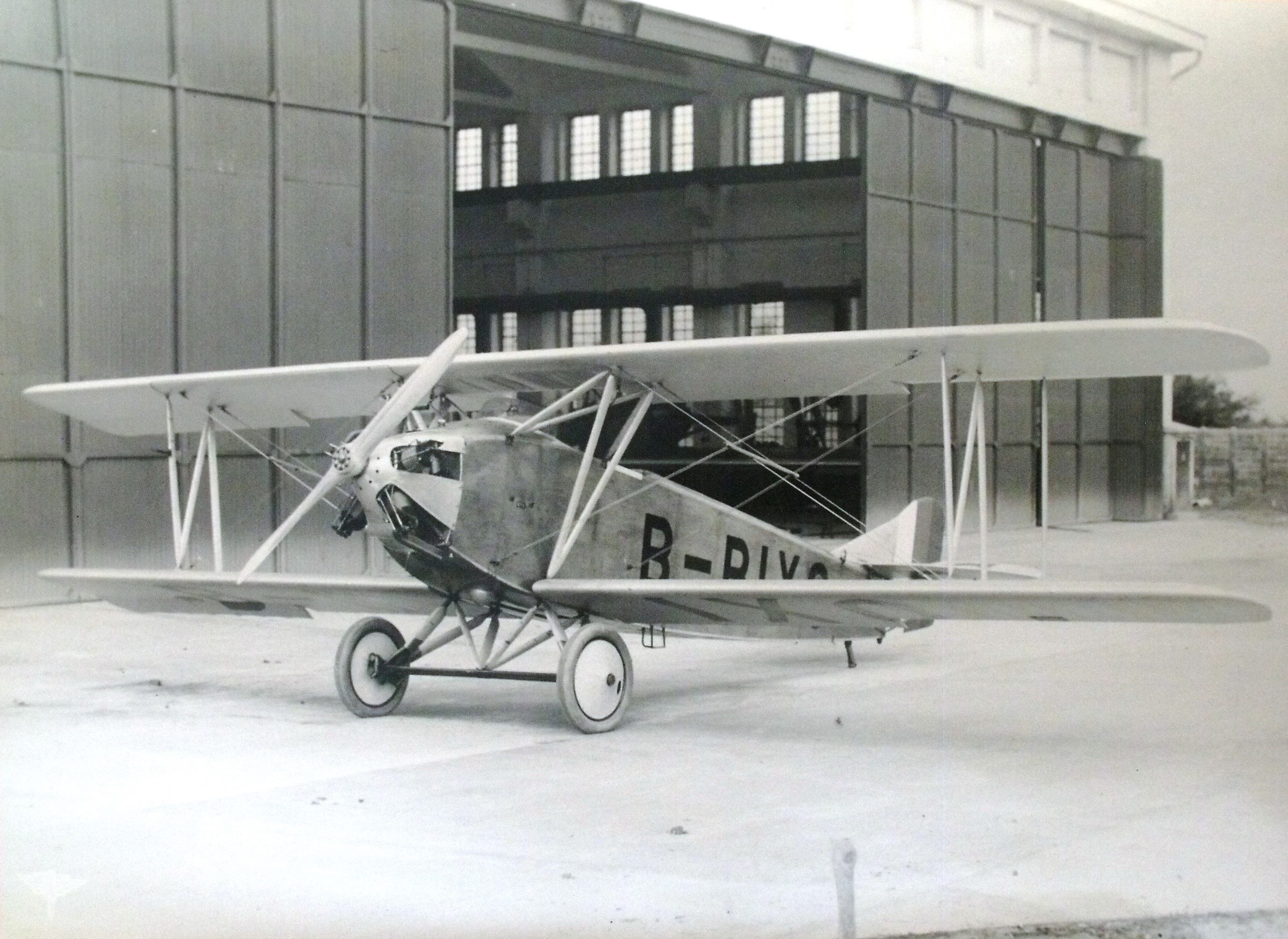 Letoun Š 18 zkonstruovaný v společnosti Letov.